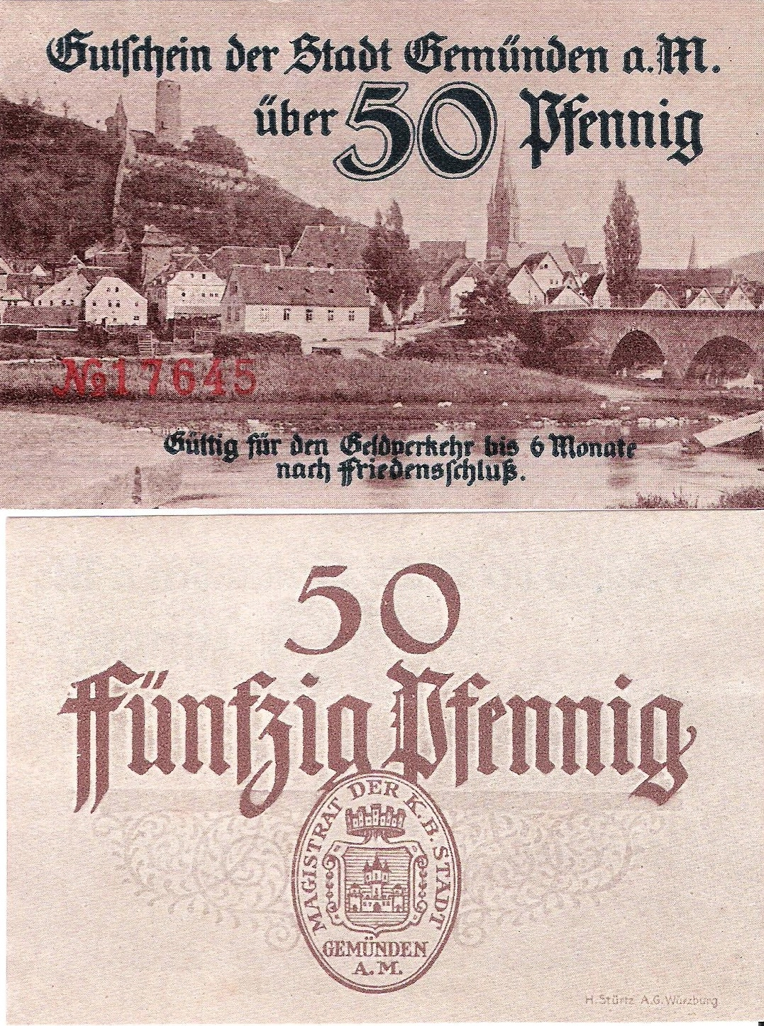 local emergency money, Gemünden am Main